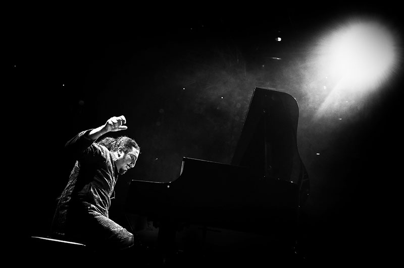 Aleph Dedication's Concert July 2013